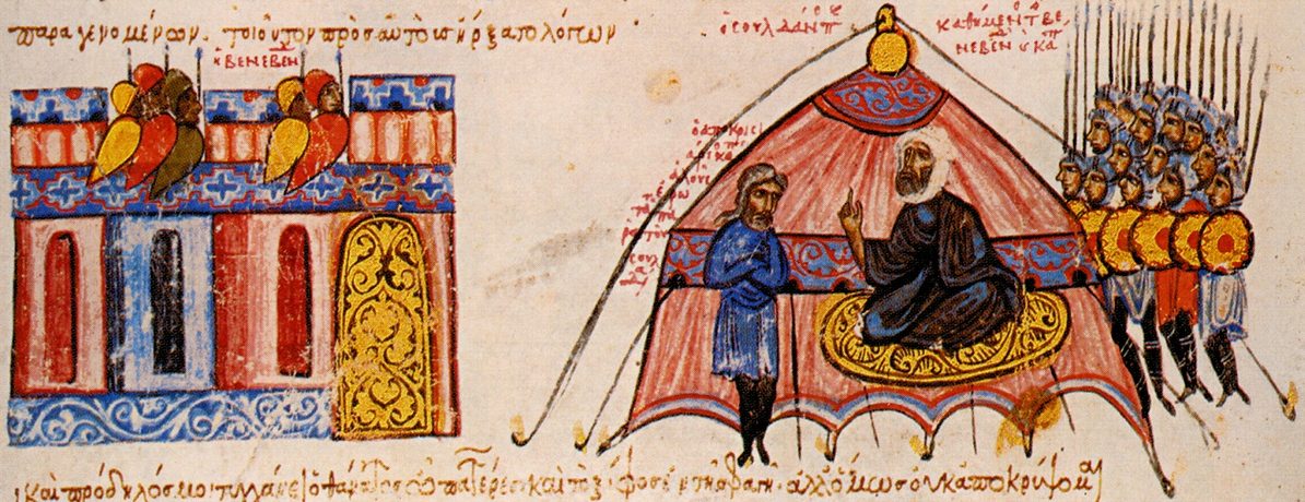 Skyllitzes Matritensis, fol. 97ra, detail. Miniature: Scene from the Arab siege of Benevento (in 871): The Arab Emir Soldanos (Mofareg ibn Salem) interrogates a Byzantine ambassador. References: Ioannis Scylitzae Synopsis Historiarum. Editio Princeps. Rec. Ioannes Thurn, p. 150, in: Corpus Fontium Historiae Byzantinae 5 Series Berolinensis, 1973 Tsamakda V.: The illustrated chronicle of Ioannes Skylitzes in Madrid, p.132 Grabar A., Manoussacas M.: L'illustration du manuscript de Skylitzes de Madrid, p. 61